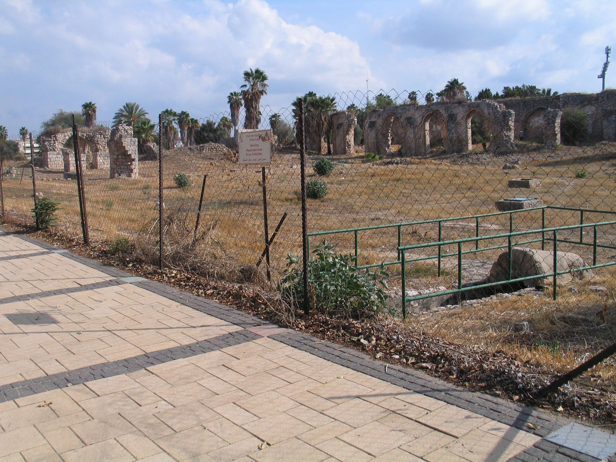 White Mosque, Ramla, Israel.